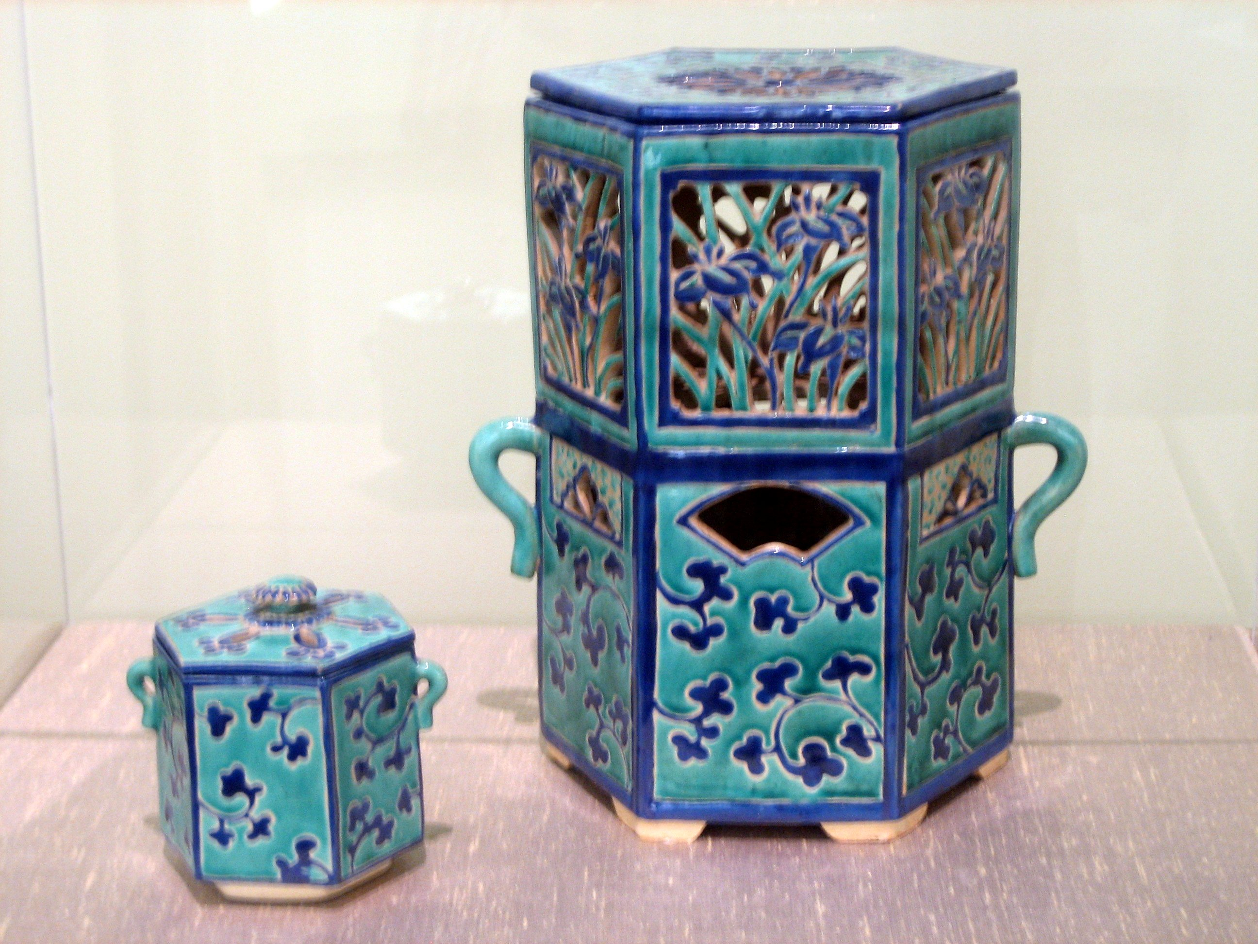 Incense burner set. Japan, Edo period. Kiyomizu ware.